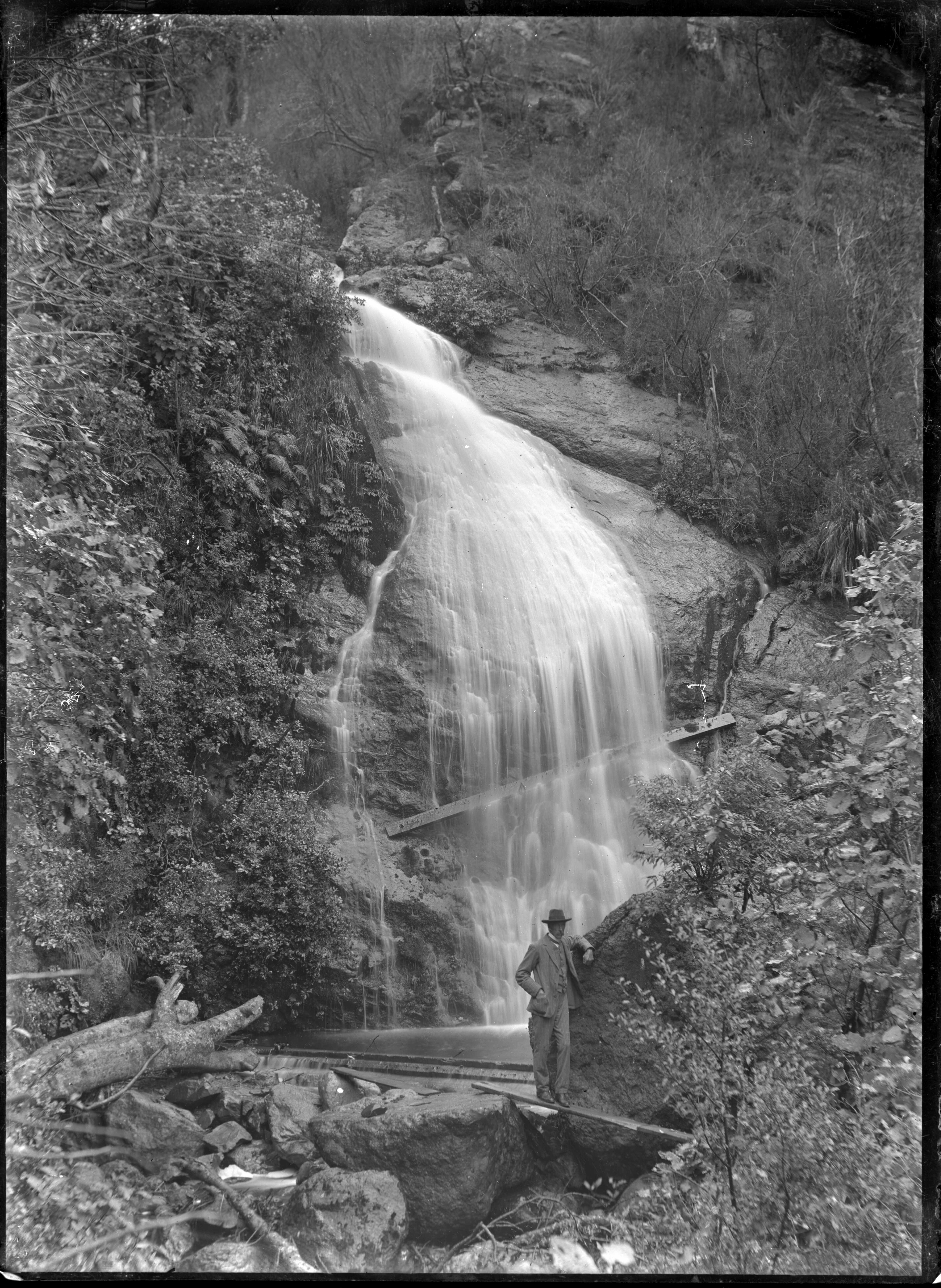 View of the waterfall at Te Aroha, photographed in 1909 by A P Godber.